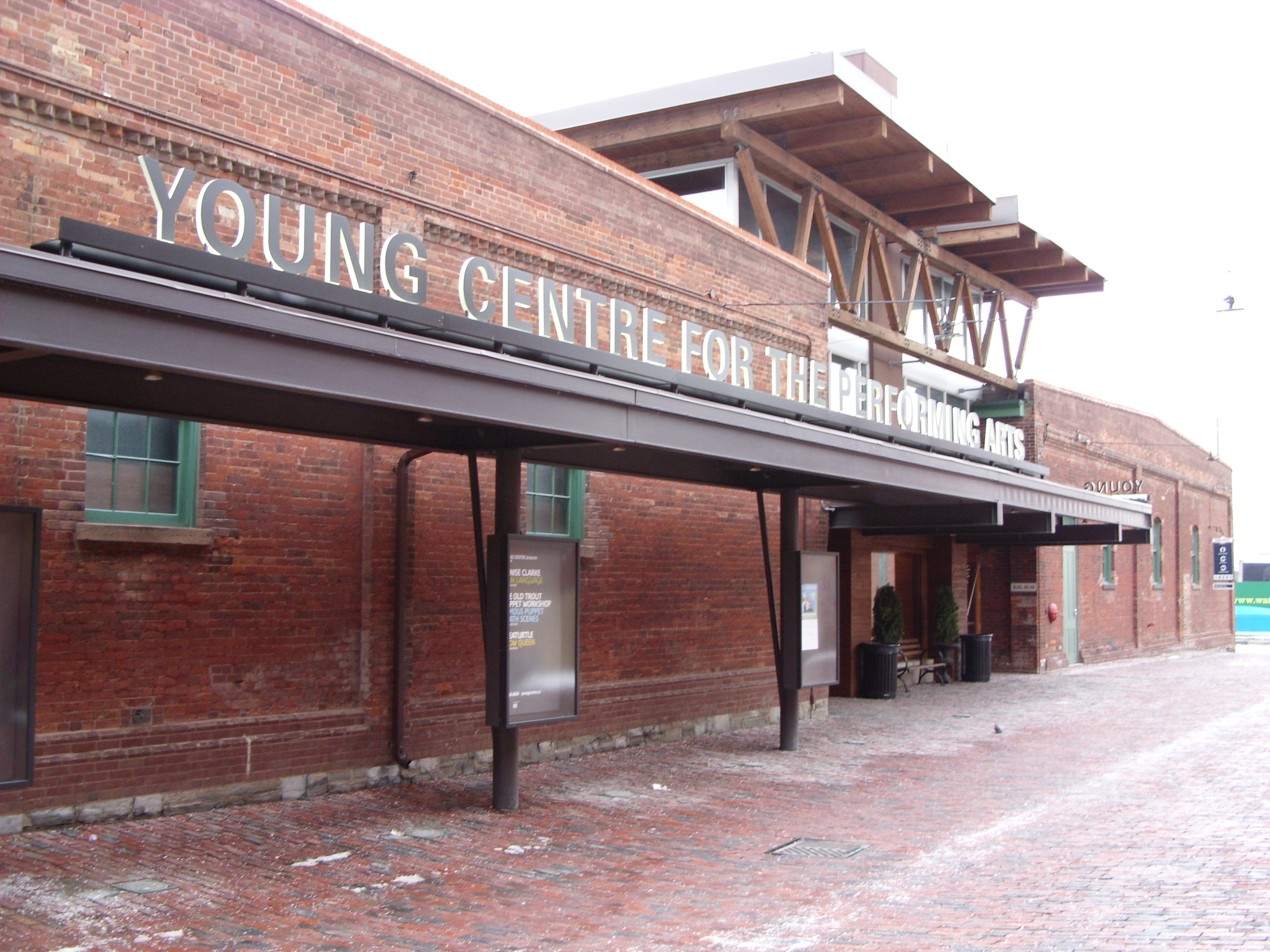 Young Centre for the Performing Arts, Distillery District, Toronto, Ontario, Canada. The building consists of two tank houses, built in 1888 for the aging of whisky, combined into a theatre.